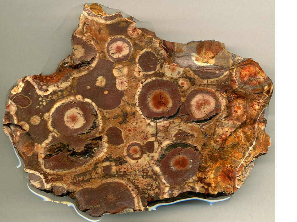 Chertified pisolitic bauxite (wet, cut surface; 11.7 cm across) from Arkansas, USA. Bauxite is a aluminum oxide/hydroxide-rich rock. It is the richest source of aluminum compared with any other common rock, and is the best aluminum ore. Bauxites are mixtures of several Al-rich minerals, including gibbsite (Al(OH)3 - aluminum hydroxide), boehmite (gAlO·OH - aluminum hydroxy-oxide), and diaspore (aAlO·OH - aluminum hydroxy-oxide). They also may have lepidochrosite (FeO·OH), an iron hydroxy-oxide, and other minerals. X-ray analysis is usually required to determine what minerals are present in any given bauxite sample. Many bauxites have an oolitic or pisolitic structure. Oolites are small, concentrically layered, spherical to subspherical structures. Pisolites are larger, pedogenic (soil-related) versions of oolites.